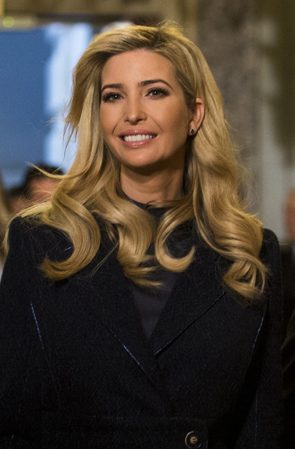 Presidential daughter, Ivanka Trump, arrives at the Capitol with her family for the the 58th Presidential Inauguration in Washington, D.C., Jan. 20, 2017. More than 5,000 military members from across all branches of the armed forces of the United States, including reserve and National Guard components, provided ceremonial support and Defense Support of Civil Authorities during the inaugural period. (DoD photo by U.S. Air Force Staff Sgt. Marianique Santos)